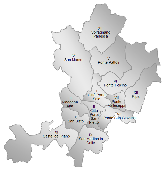 "circoscrizioni" (administrative subdivisions) of the city of Perugia (Italy)